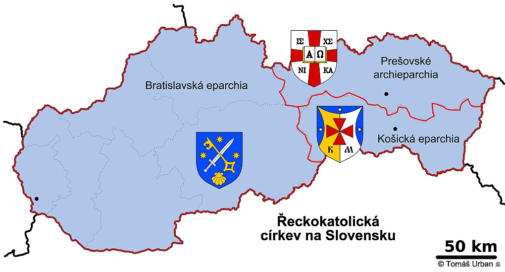 Heraldic map (with coats of arms)